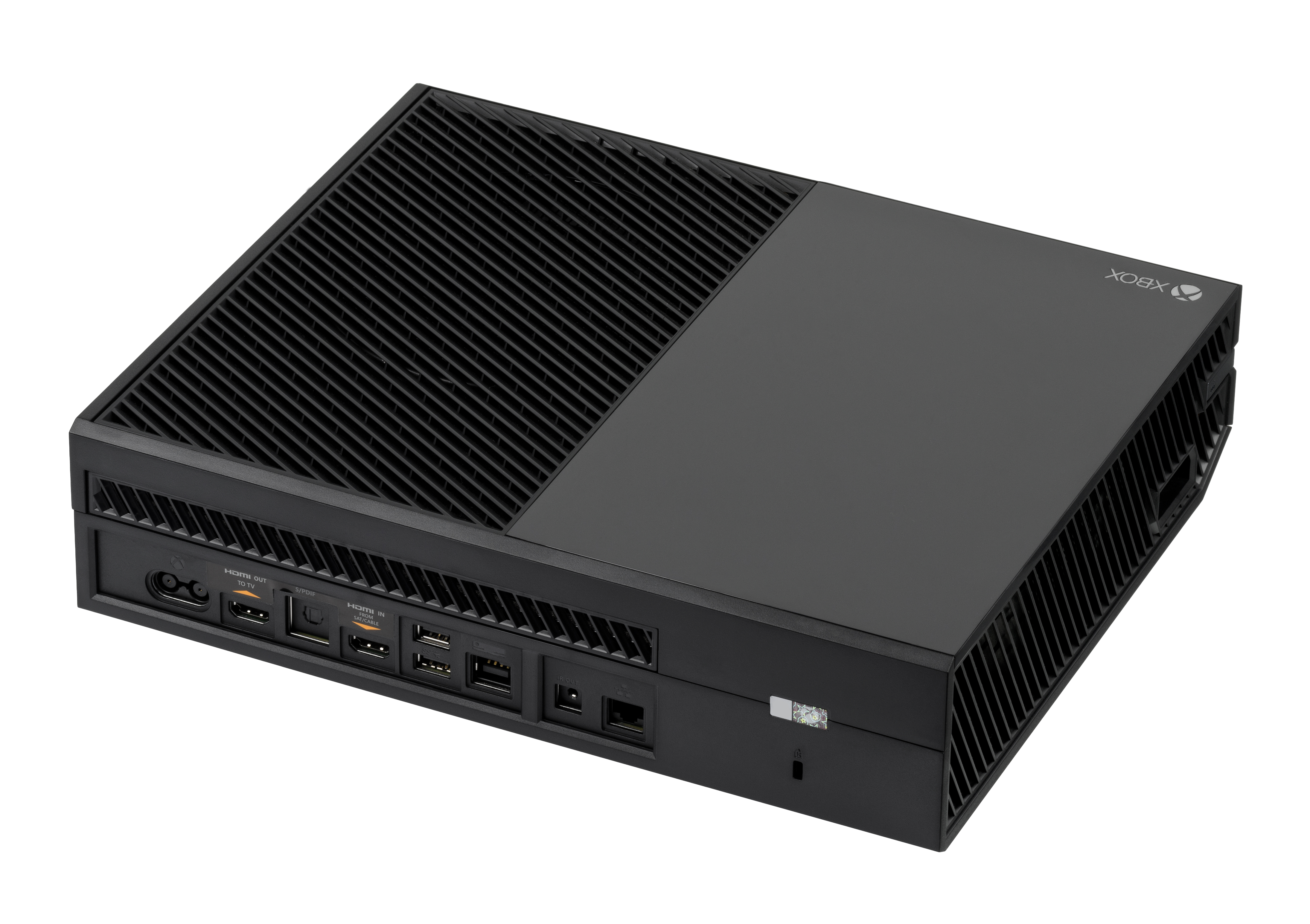 The Xbox One video game console, made by Microsoft and originally released in 2013. It is an eighth-generation system, proceeding the Xbox 360.